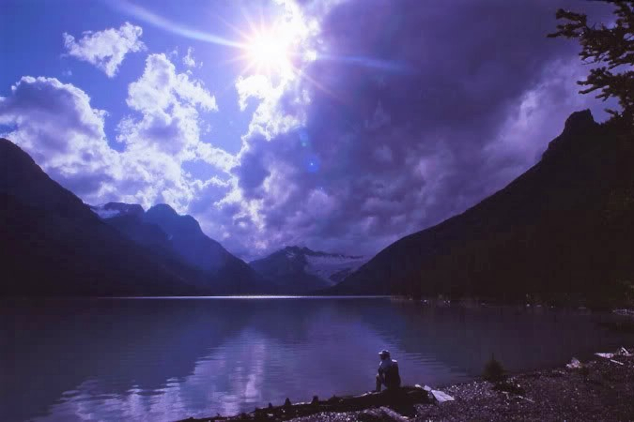 Glacier Lake in Banff National Park; Glaciers flow down from the Lyell Icefield well beyond the far end of the lake and that's Division Mountain abutting the icefield. That's Doug sitting on a log.